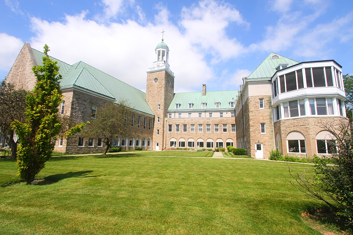 Northcliff Campus, Columbia International College